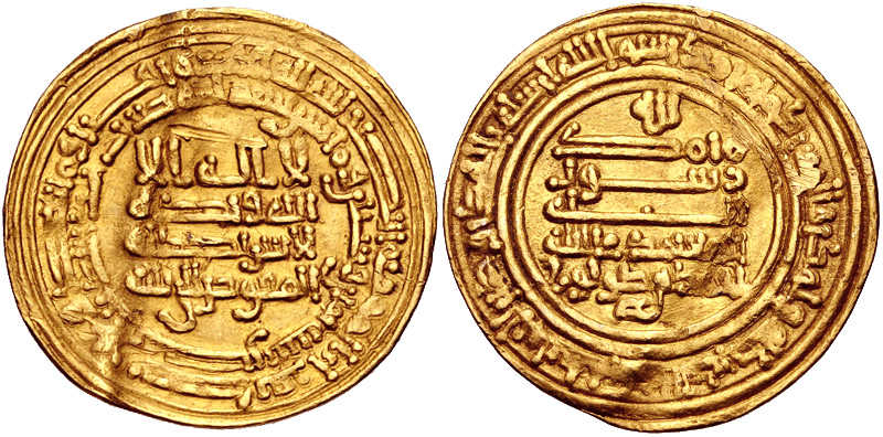 ISLAMIC, Egypt & Syria (Pre-Fatimid). Tulunids. Ahmad bin Tulun. AH 254-270 / AD 868-884. AV Dinar (24mm, 4.13 g, 10h). Misr (Fustat) mint. Dated AH 268 (AD 881/2). Grabar 8; AGC I 191De; Album 661. VF, areas of flat strike, slightly wavy flan. The dinar contains the standard set of inscriptions found on Abbasid coins of the late ninth century. As follows: Obverse center: لا إله إلا \ الله وحده \ لا شريك له \ المفوض إلى الله "There is no god but God alone; He has no partner. [The heir-apparent] al-Mufawwad ila-Allah." Obverse inner margin: بسم الله ضرب هذا الدينار بمصر سنة ثمان وستين ومائتين "In the name of God, this dinar was struck in Misr the year two hundred and sixty-eight (881-882 AD)." Obverse outer margin: لله الأمر من قبل ومن بعد ويومئذ يفرح المؤمنون بنصر الله "To God belongs the command [of all things] before and after. And that day the believers will rejoice in the help of God (Qur'an 30:4-5)." Reverse center: لله \ محمد \ رسول \ الله \ المعتمد على الله \ أحمد بن طولون "To God. Muhammad is the Messenger of God. [The caliph] al-Mu'tamid 'ala Allah. Ahmad ibn Tulun." Reverse margin: محمد رسول الله أرسله بالهدى ودين الحق ليظهره على الدين كله ولو كره المشركون "Muhammad is the Messenger of God. He sent him with guidance and the true religion to proclaim it over all other religions, even if the polytheists dislike it (Qur'an 9:33)." For more details see: Bacharach, Jere L. Islamic History through Coins: An Analysis and Catalogue of Tenth-Century Ikhshidid Coinage. Cairo: The American University in Cairo Press, 2006. ISBN 977-424-930-5. pp 15-19 Rogers, Edward Thomas. "The Coins of the Tuluni Dynasty." The International Numismata Orientalia, IV." London: Trubner & Co., 1877. p. 17